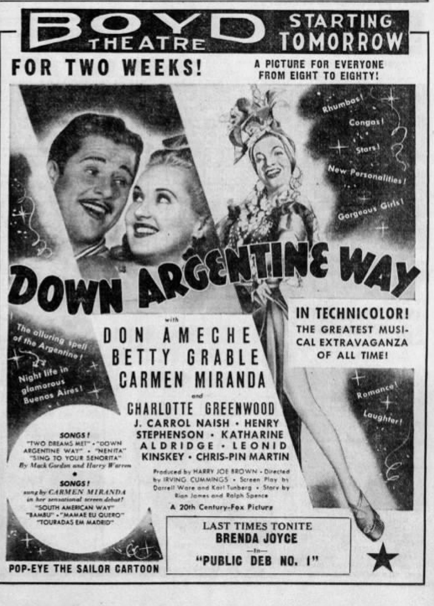 Boyd Theatre advertisement for the American film Down Argentine Way (1940) - 10 Oct. 1940 Morning Call, Allentown PA